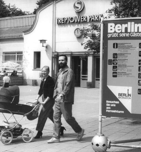 Title: Berlin, S-Bahnhof Treptower Park Factual corrections and alternative descriptions are encouraged separately from the original description. Additionally errors can be reported at this page to inform the Bundesarchiv. Original historic description: ADN-ZB-Senft-11.7.85-zin-Berlin: "Weiße Flotte", der Treptower Park, das Sowjetische Ehrenmal, die Gaststätte "Zenner"- diese und andere Ziele haben die auf dem S-Bahnhof ankommenden Berliner und Gäste der Hauptstadt."